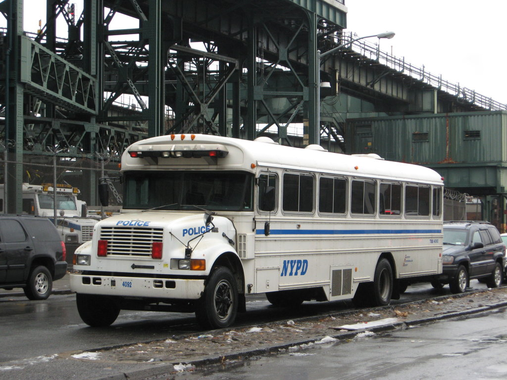 NYPD Transit Bureau 33 #4092 parked outside the precinct.